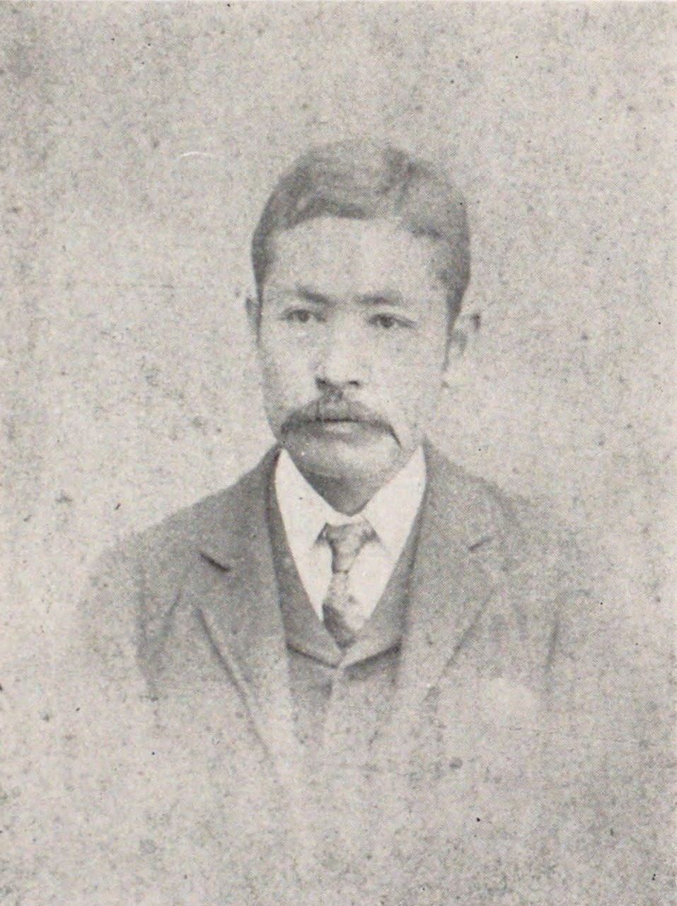 Natsume Soseki in March 1894.